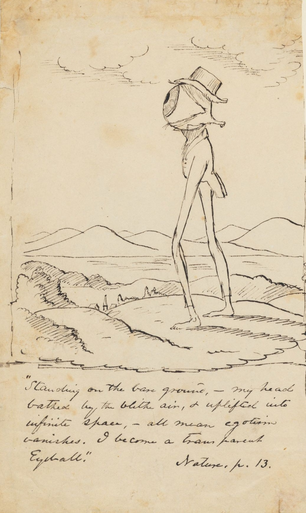 Illustration of "the transparent eyeball" concept of Ralph Waldo Emerson (original), by Christopher Pearse Cranch (1813-1892). Illustrations ca. 1837-1839, collected in 1844 by James Freeman Clarke and erroneously dated 1835. Christopher Pearse Cranch illustrations of the New Philosophy (MS Am 1506), Houghton Library, Harvard University